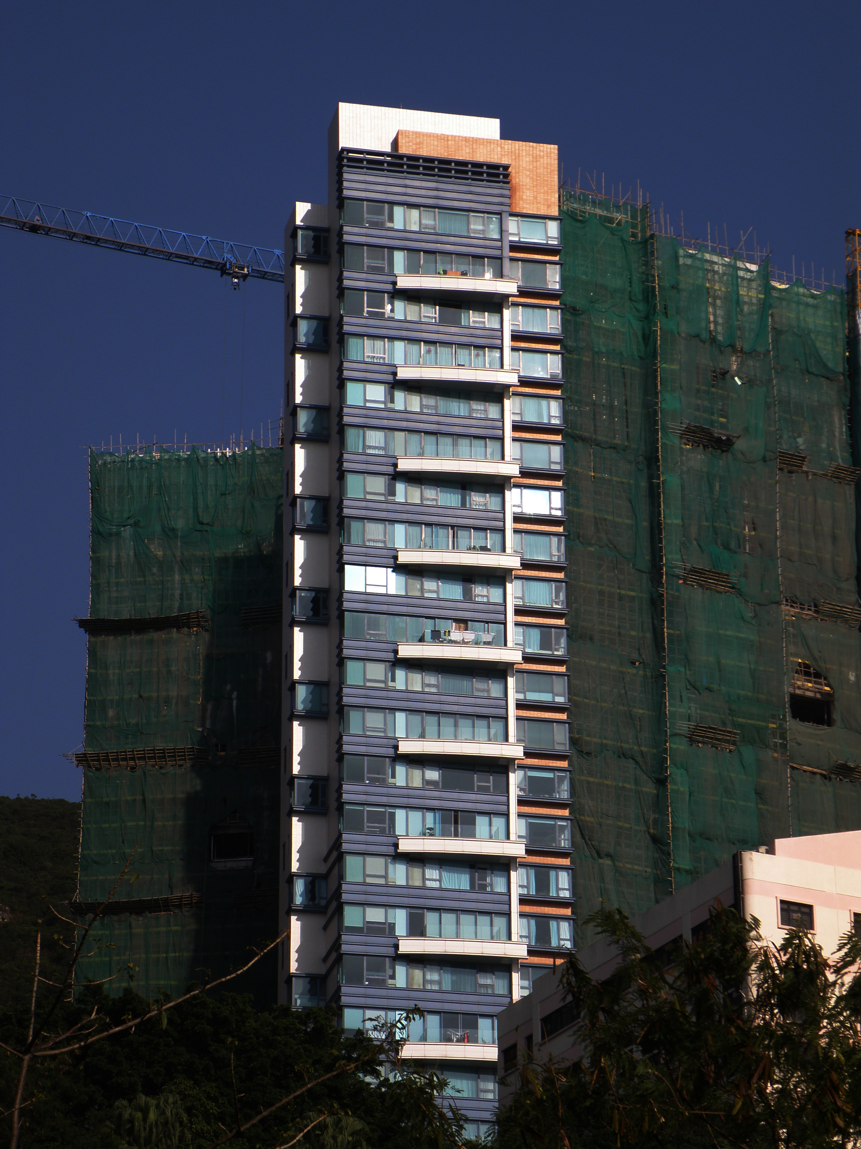 Radcliffe in Pok Fu Lam, Hong Kong.